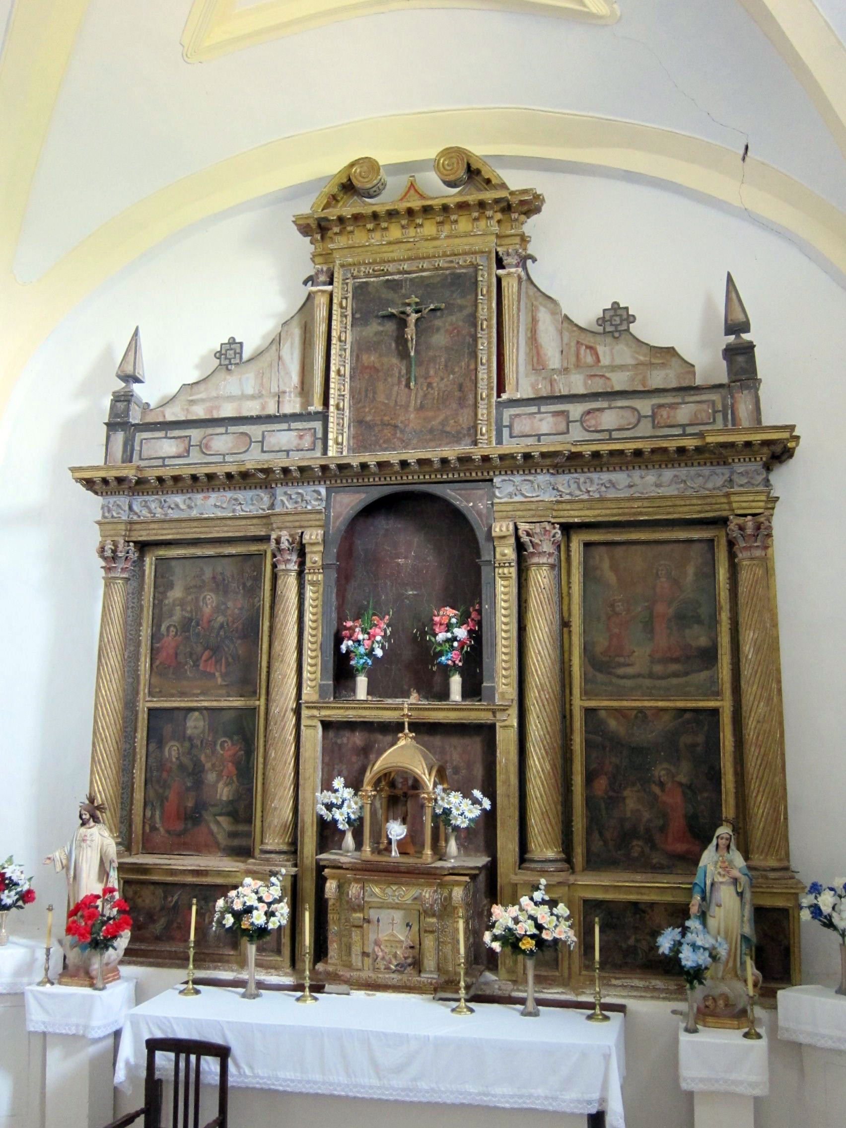 Master altapiece of the Church of Nuestra Señora de la Asunción in Villamelendro de Valdavia (XVIth century).